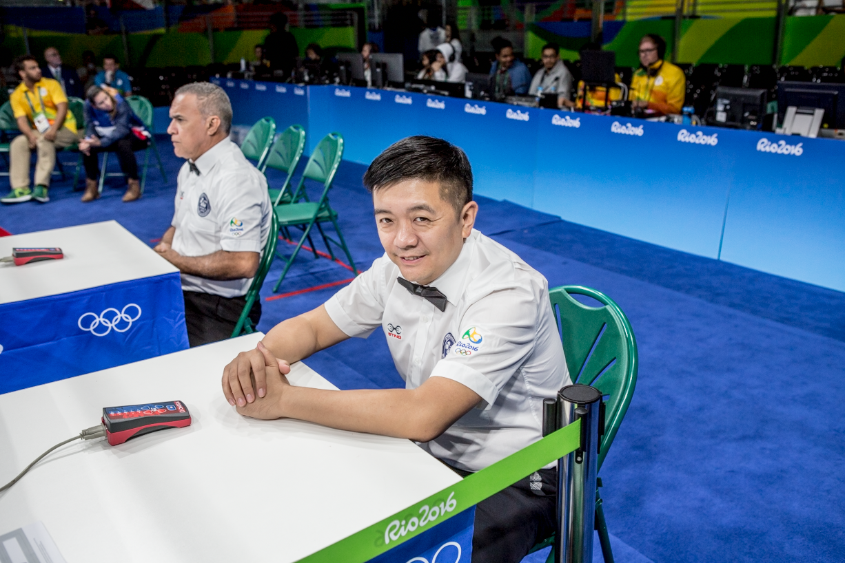 Day 3at the 2016 Summer Olympics. Boxing judges.